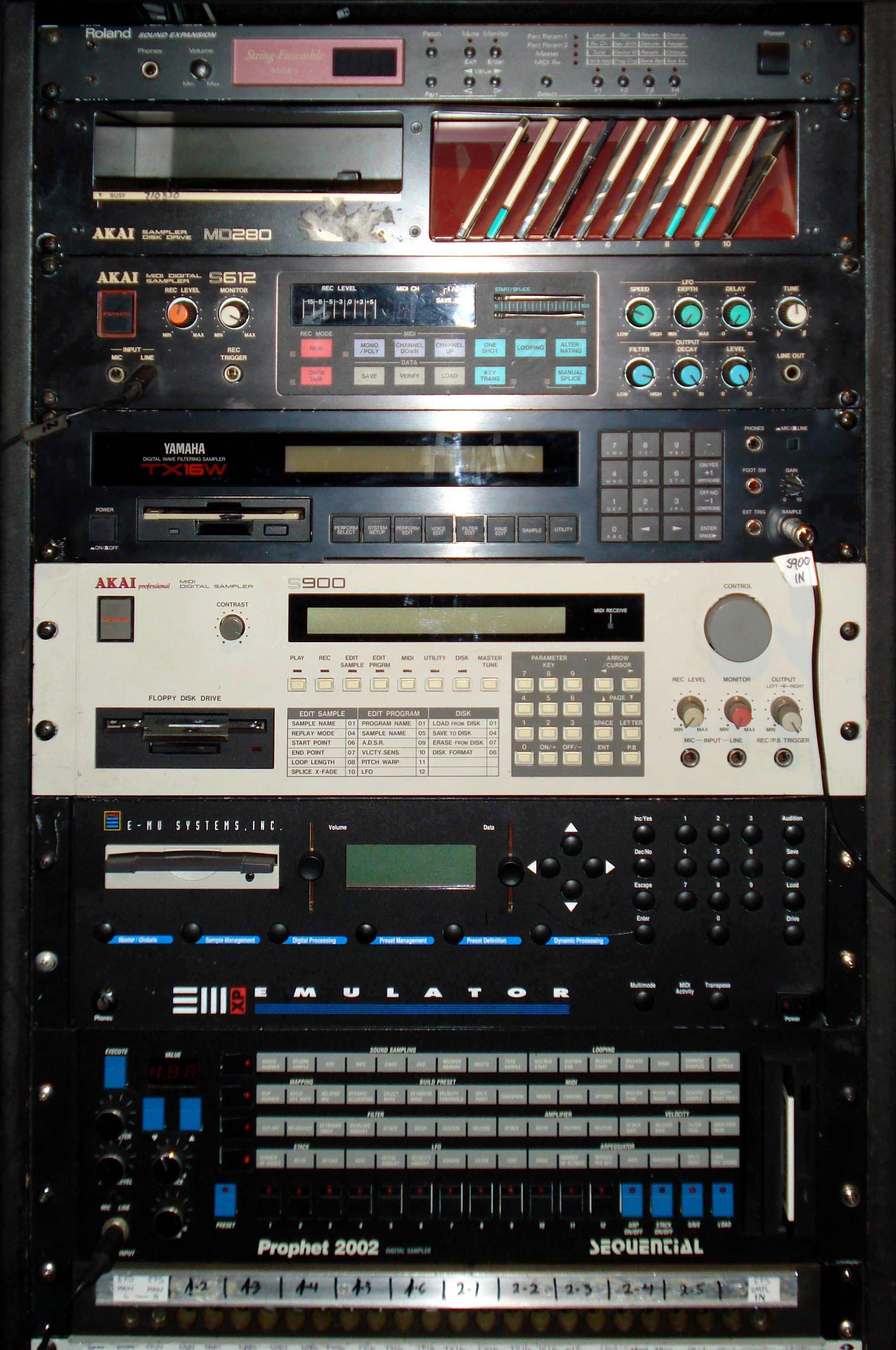 Shawn Rudiman's Studio, Pittsburgh, PA